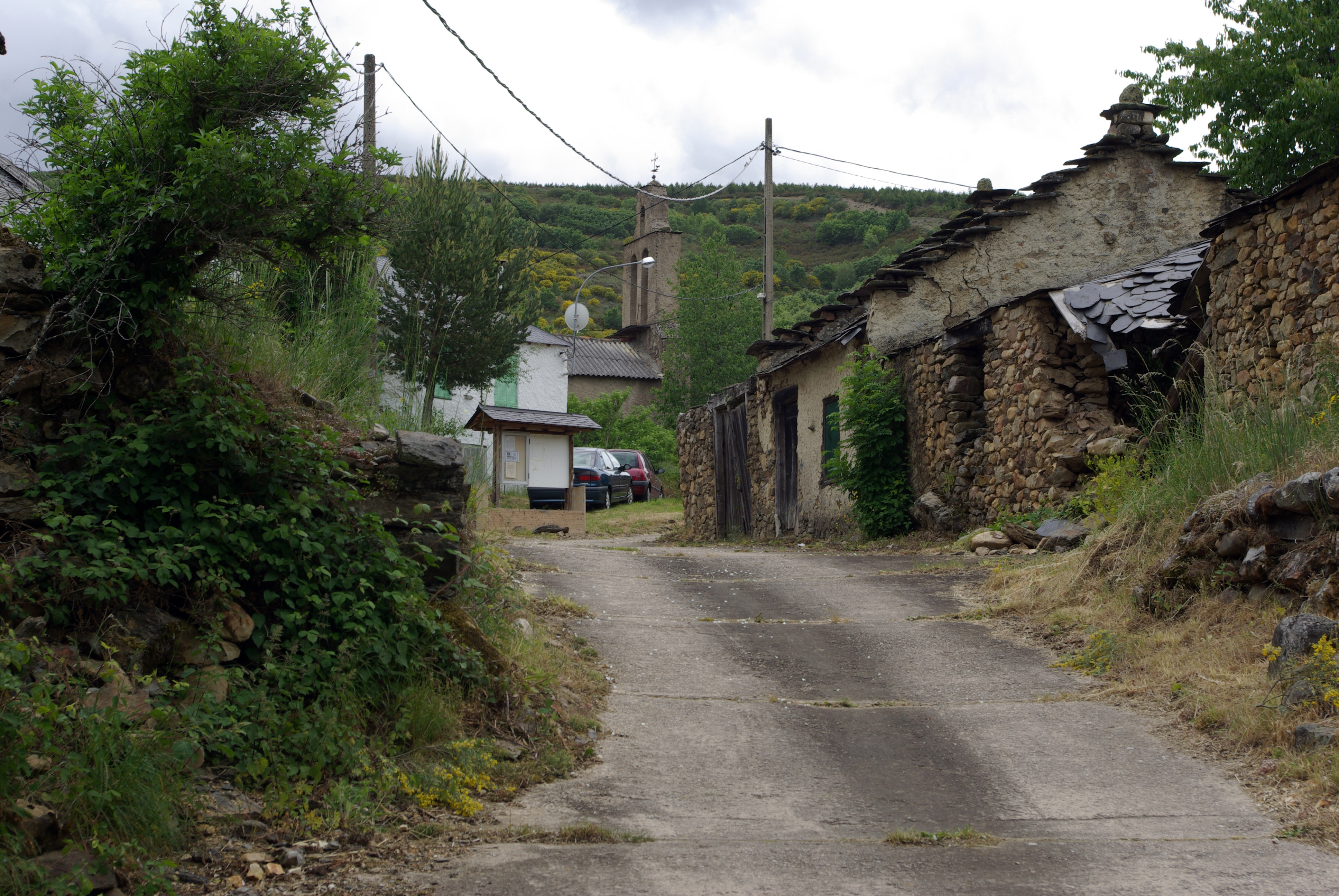 Murias de Ponjos (Valdesamario, León, Spain).